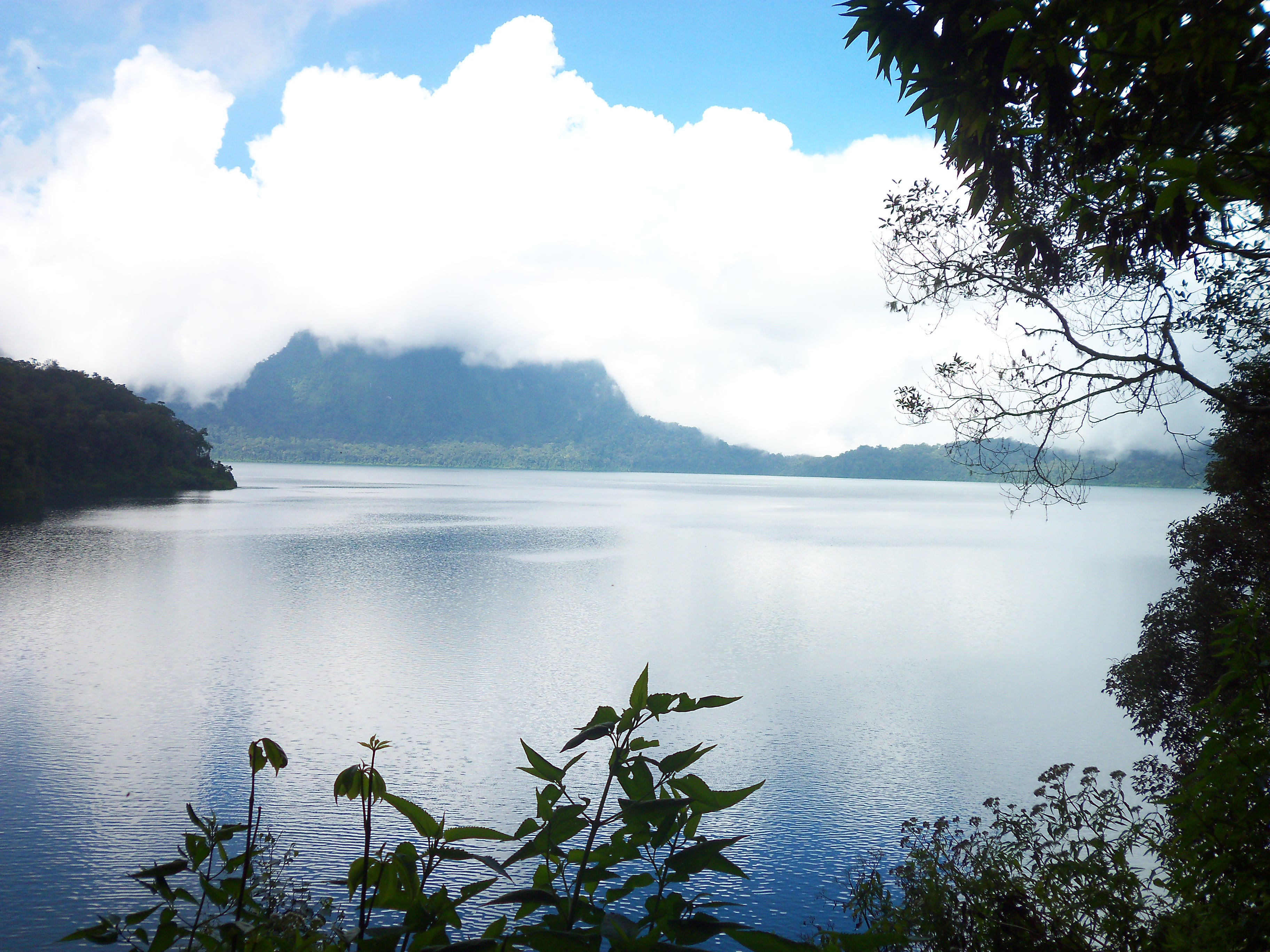 Lake Gunung Tujuh at Kerinci, Jambi, Indonesia